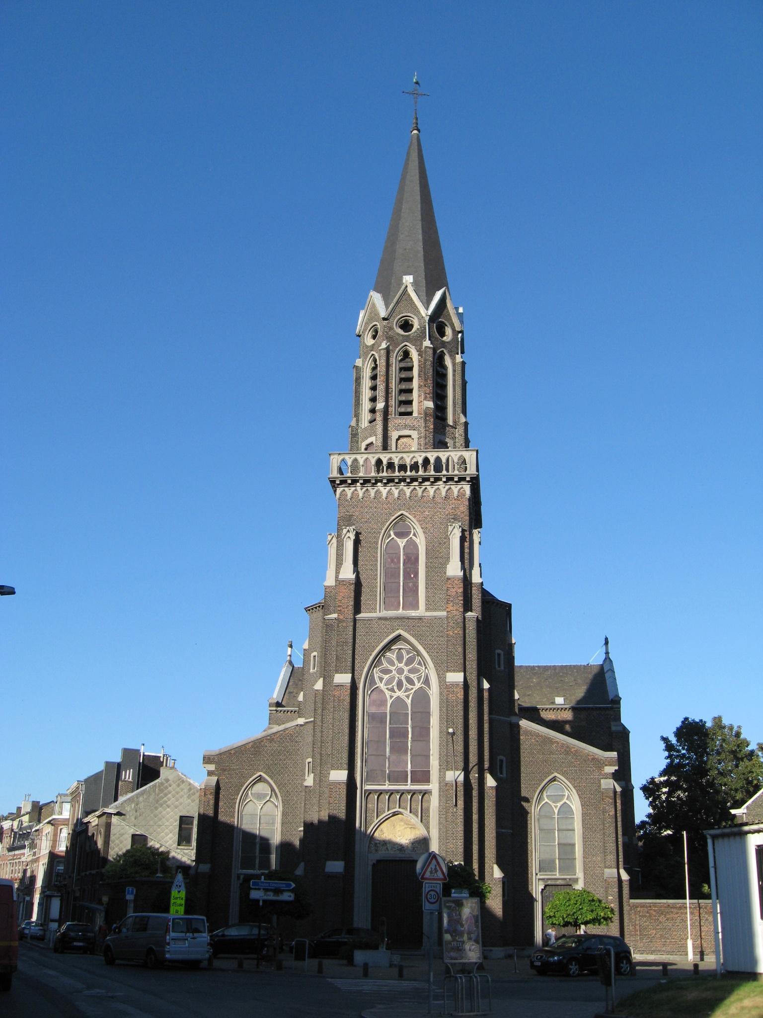 Church of Saint Foy in Liège, Liège, Belgium